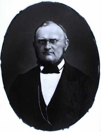 Adam Kristoffer Fabricius (1822-1902), Danish historian and priest